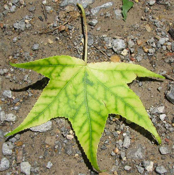 A sweetgum (Liquidambar styraciflua) leaf showing the signs of interveinal chlorosis. This is caused by the plant being unable to produce enough chlorophyll, probably because of a nutrient deficiency.